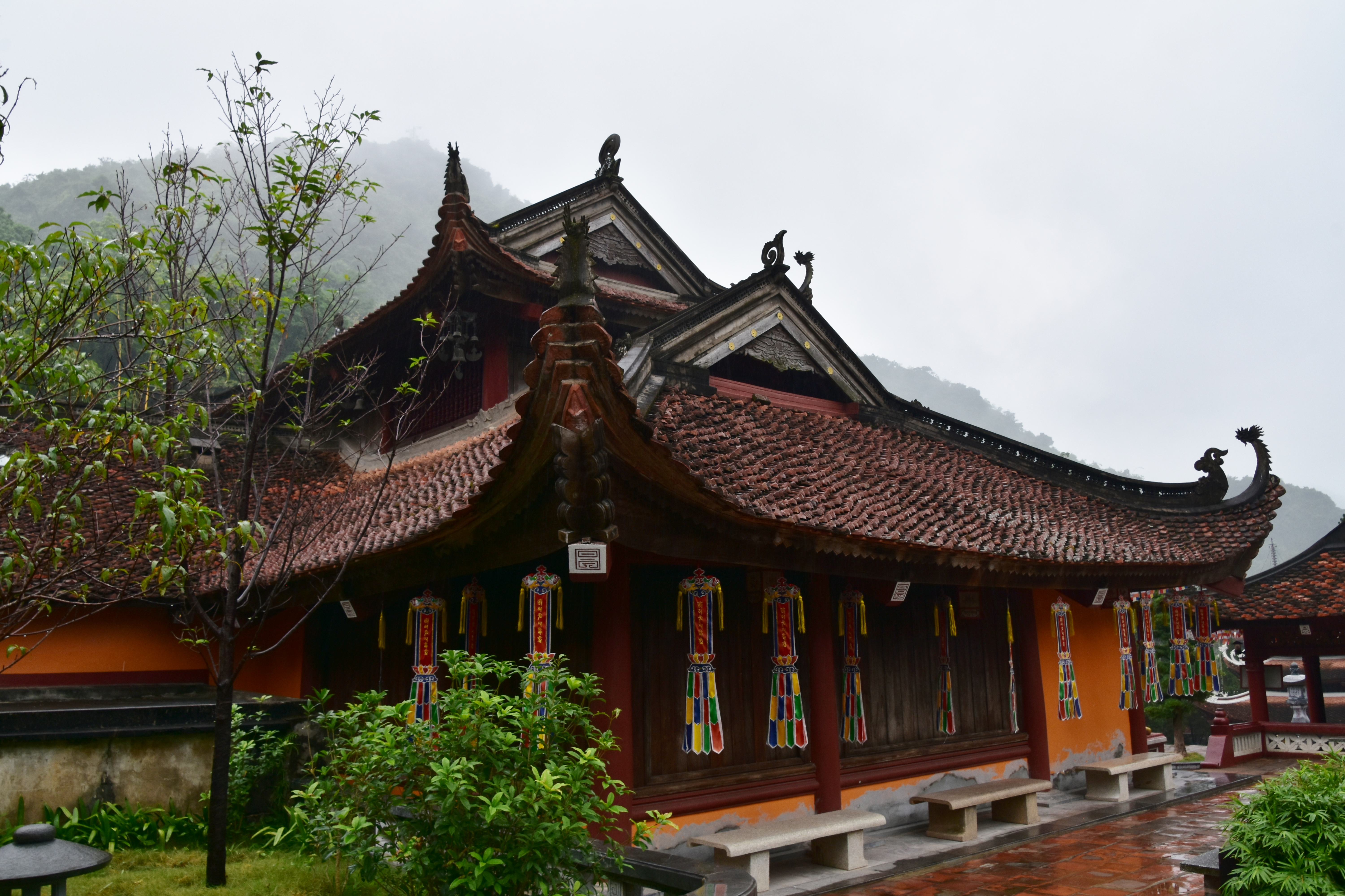 Heavenly Kitchen Pagoda, northern Vietnam (3)